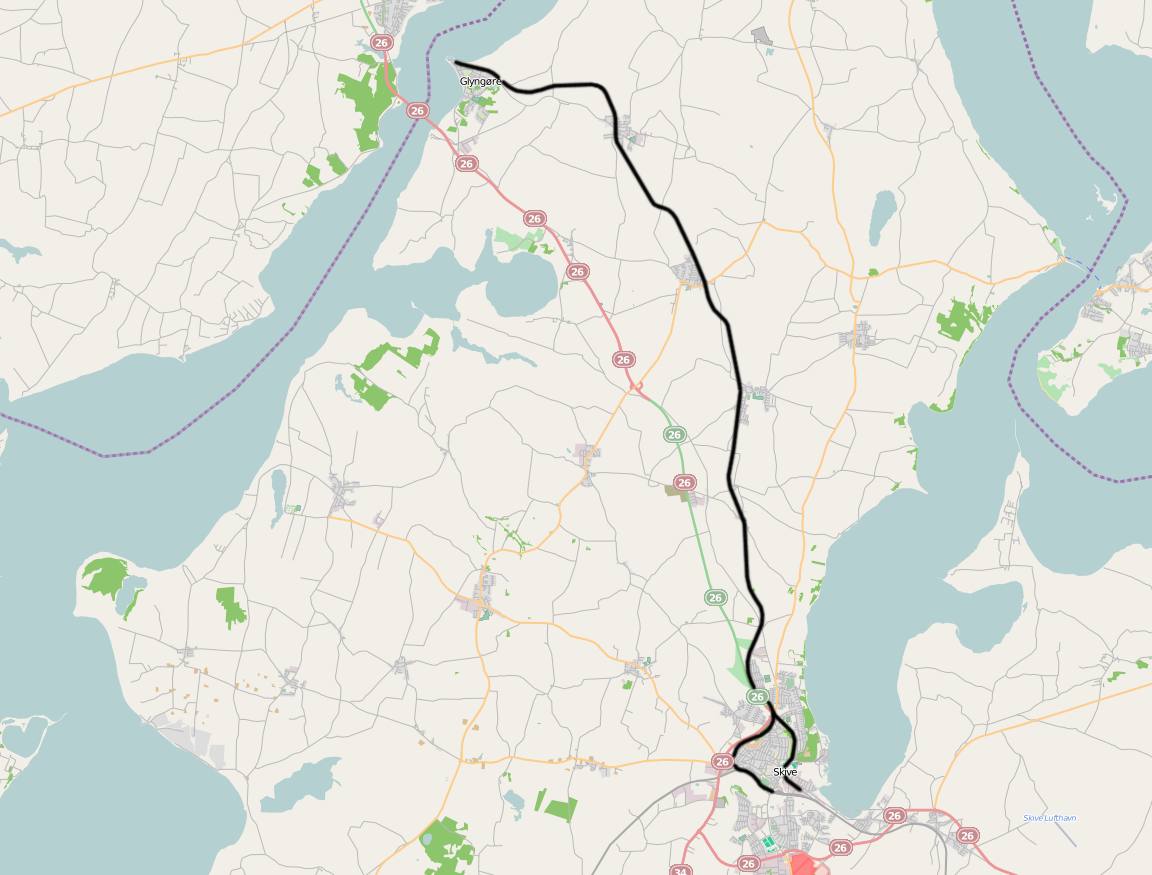 Railway line Skive - Glyngøre